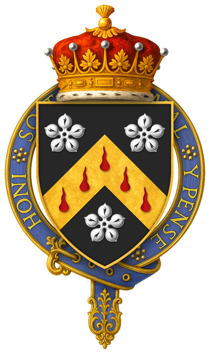 Garter encircled arms of John Wodehouse, 1st Earl of Kimberley, KG, as displayed on his Order of the Garter stall plate in St. George's Chapel, viz. Sable a chevron or, guttée de sang between three cinquefoils ermine.